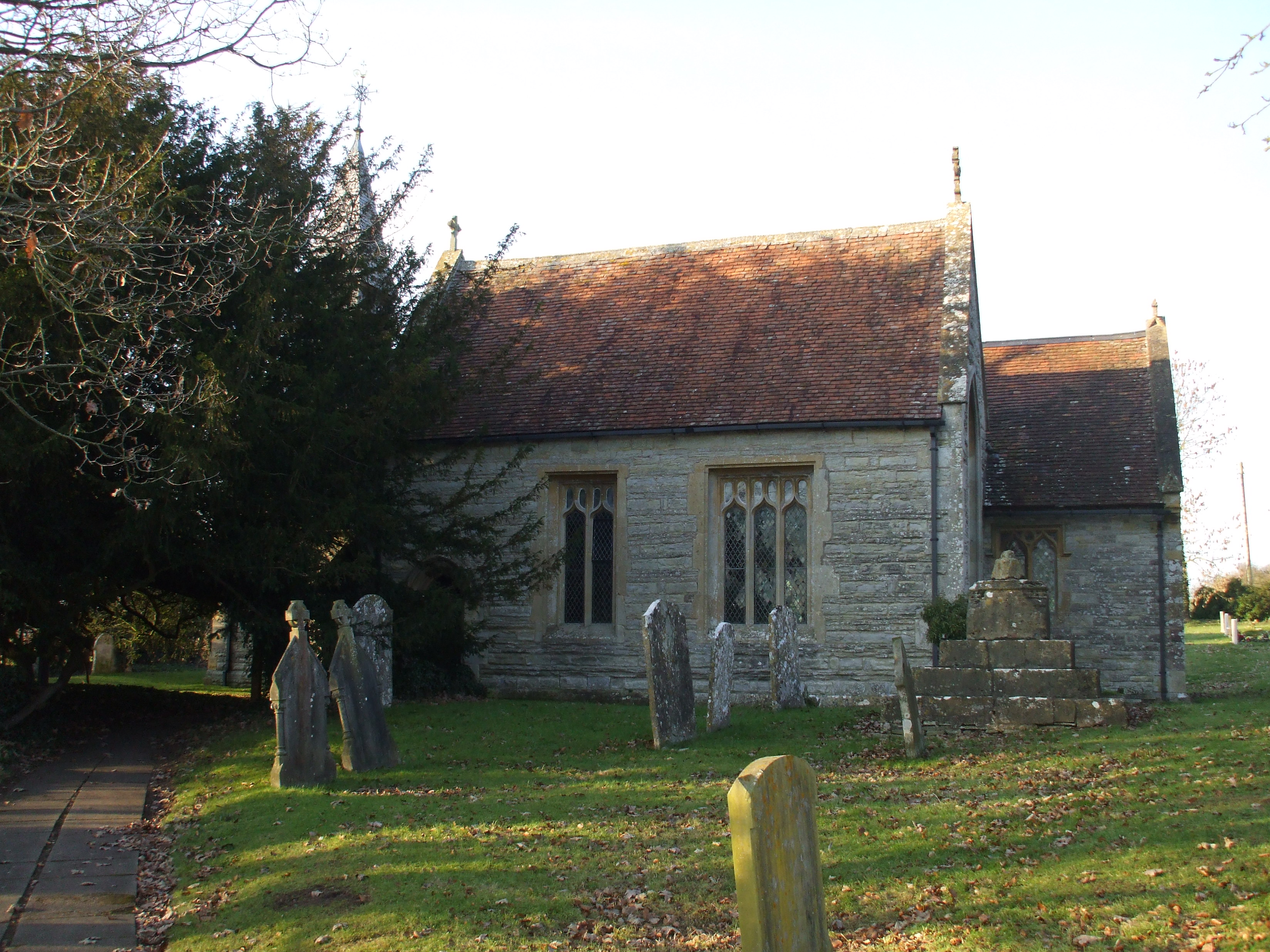 St Milburga's parish church, Wixford, Warwickshire. On the right next to the chancel is the base and broken stump of the 15th-century churchyard cross.